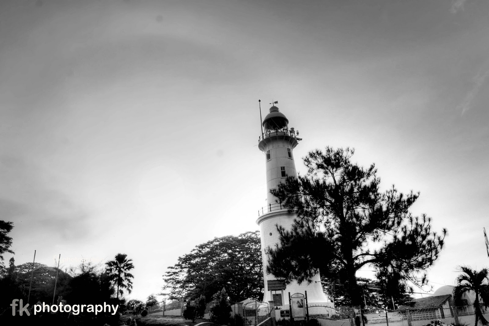 Bukit Malawati Historical Complex